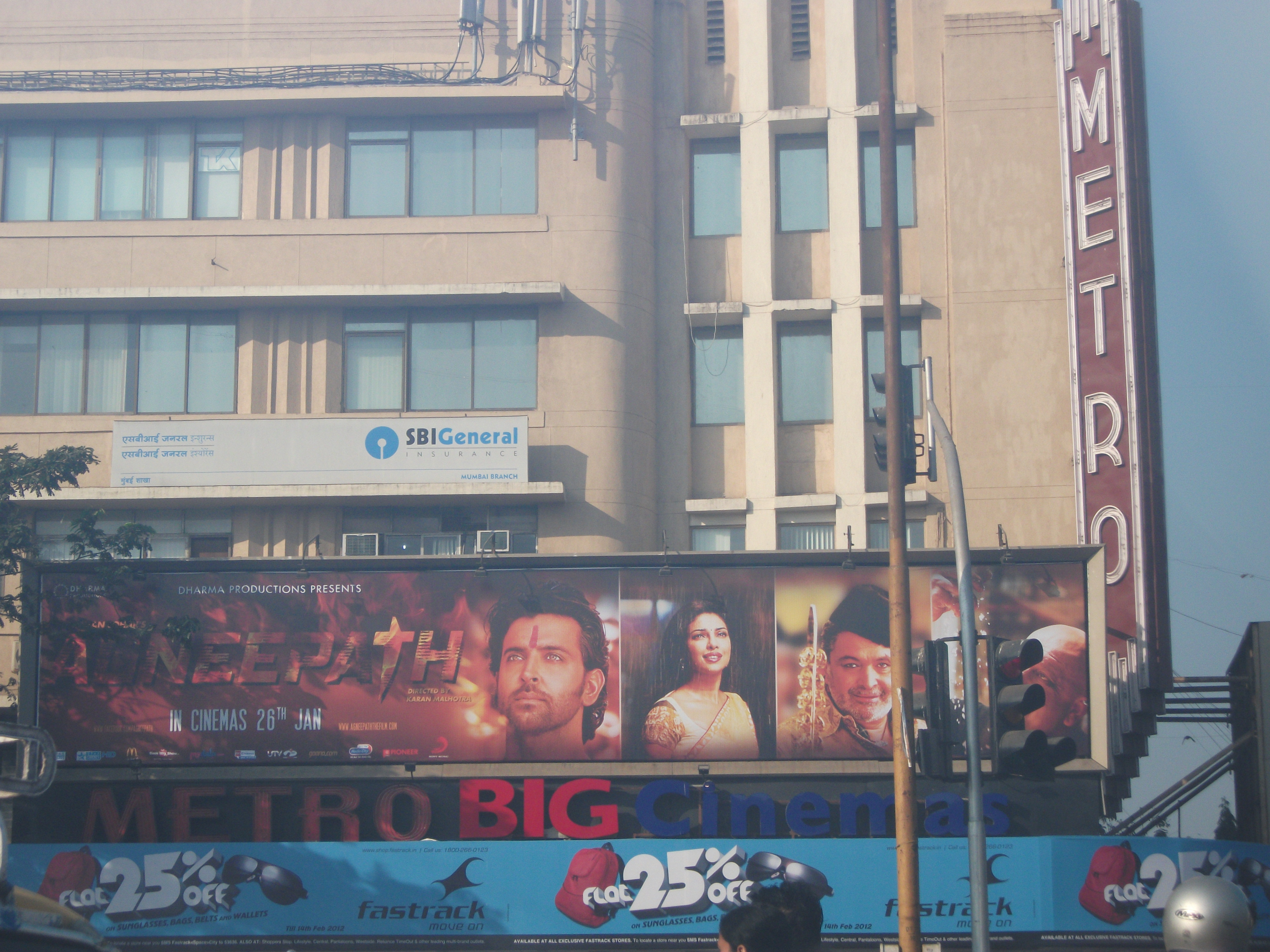 Metro BIG Cinema (earlier Metro Adlabs (2006–2008), previously Metro Cinema (1938–2006)) is an Art Deco Heritage grade IIA multiplex Movie theater in Mumbai, India